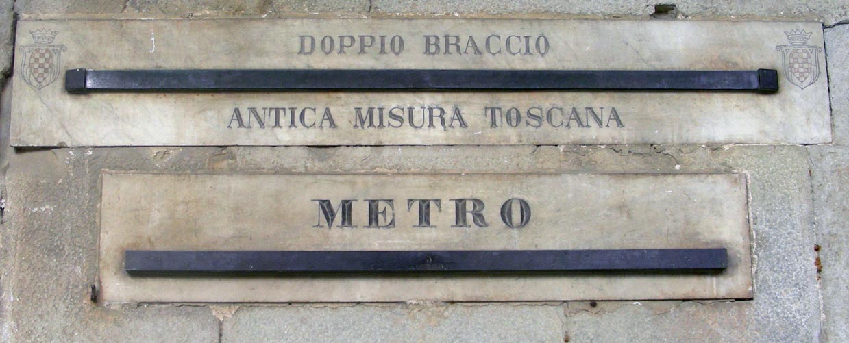 Public reference copies of the metre and the now-obsolete Tuscan unit of measure, the double braccio (double ell) alongside the main entrance to the Palazzo del Comune (Town Hall) in piazza del Duomo (Cathedral square), Pistoia, Italy.